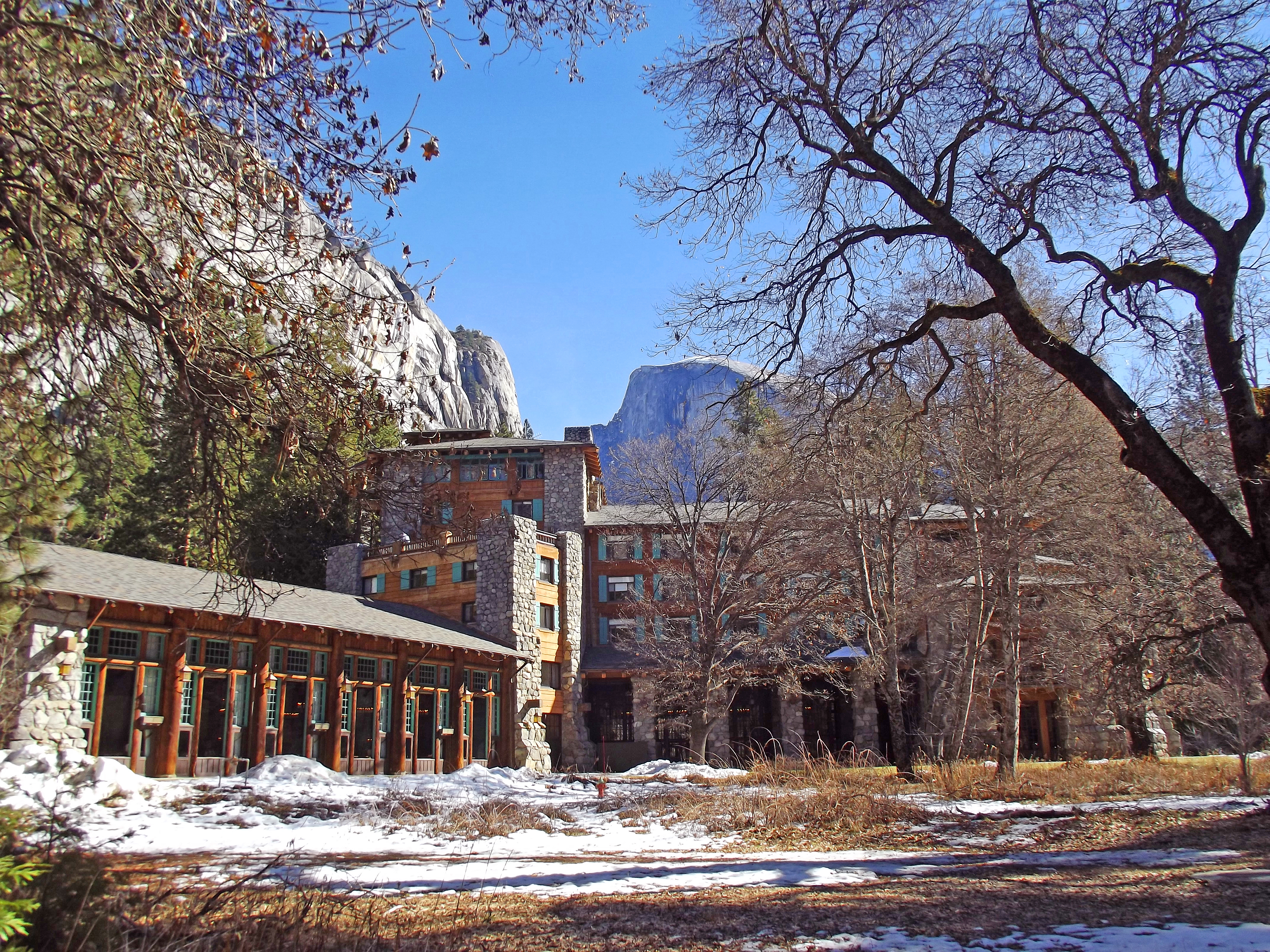 A view of Half Dome and the Ahwahnee Hotel in Yosemite National Park, California.